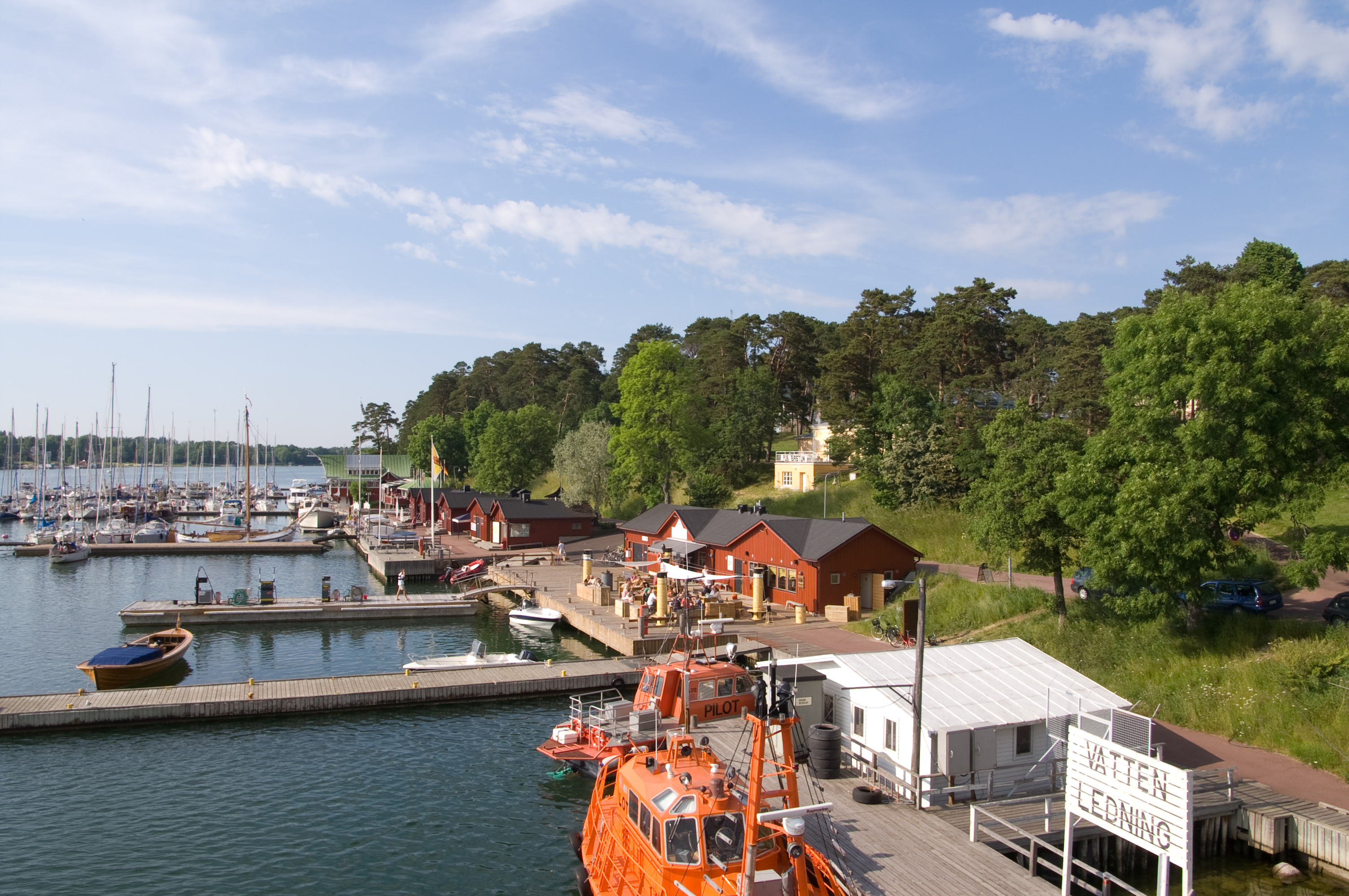 West Harbour in Mariehamn, Åland, Finland.